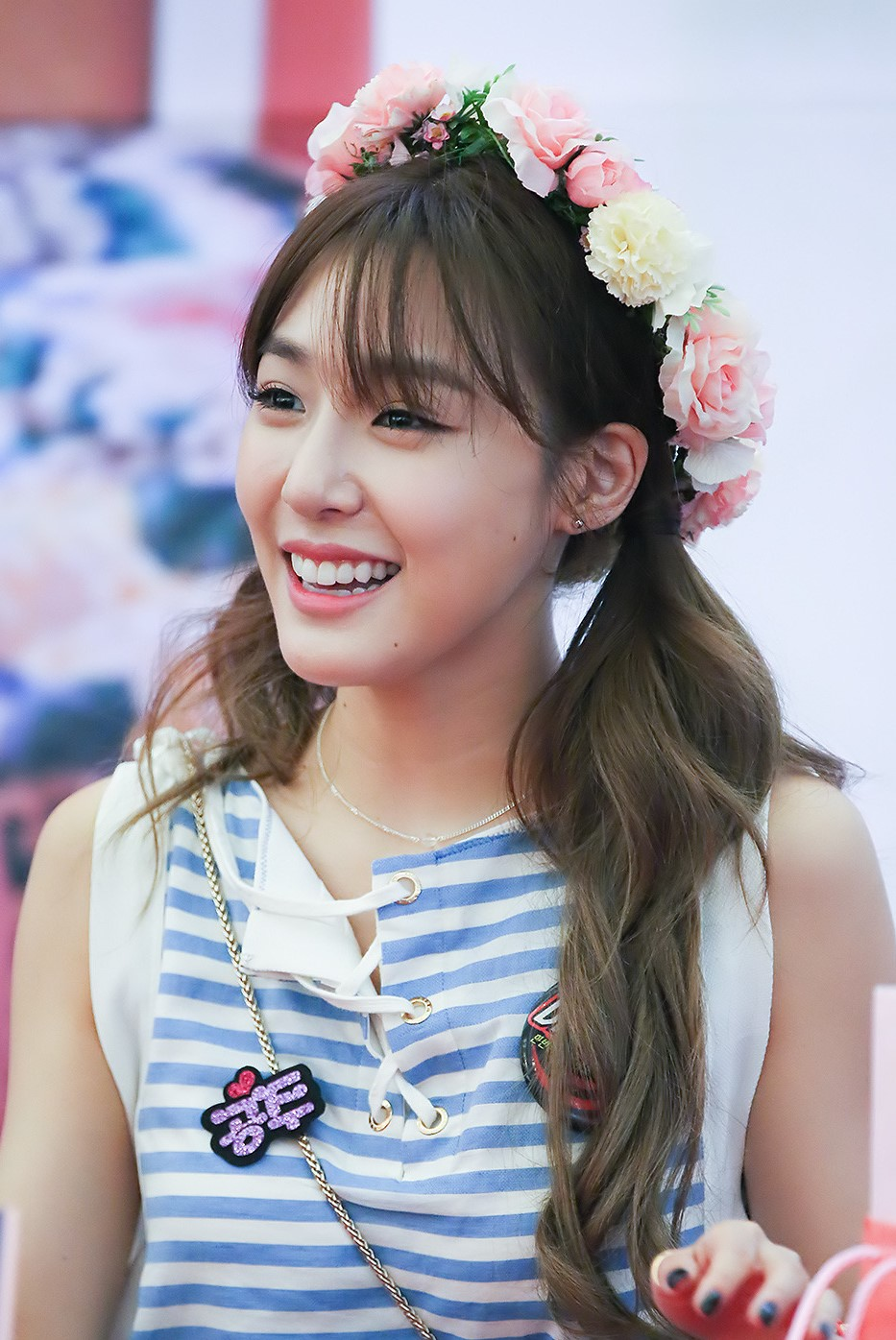 Tiffany Hwang at a fansigning in Busan, on June 6, 2016.